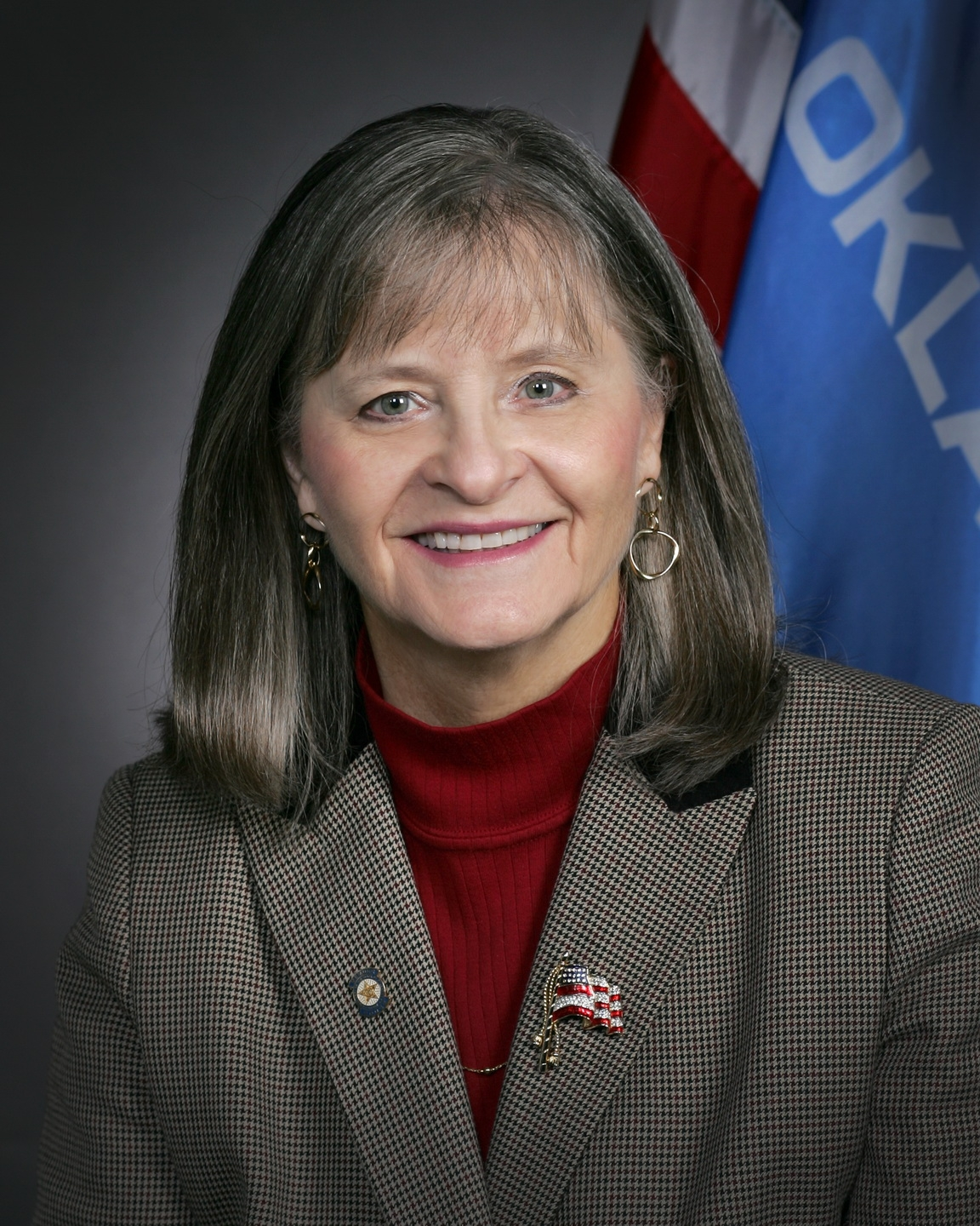 Oklahoma State Representative Sally Kern.